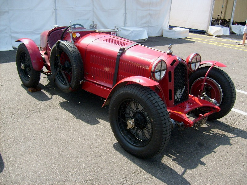 Silverstone Classic 2008